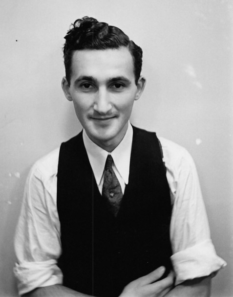 Bernard Hoffman, ca. 1936, around the time he started as a staff photographer for Life.